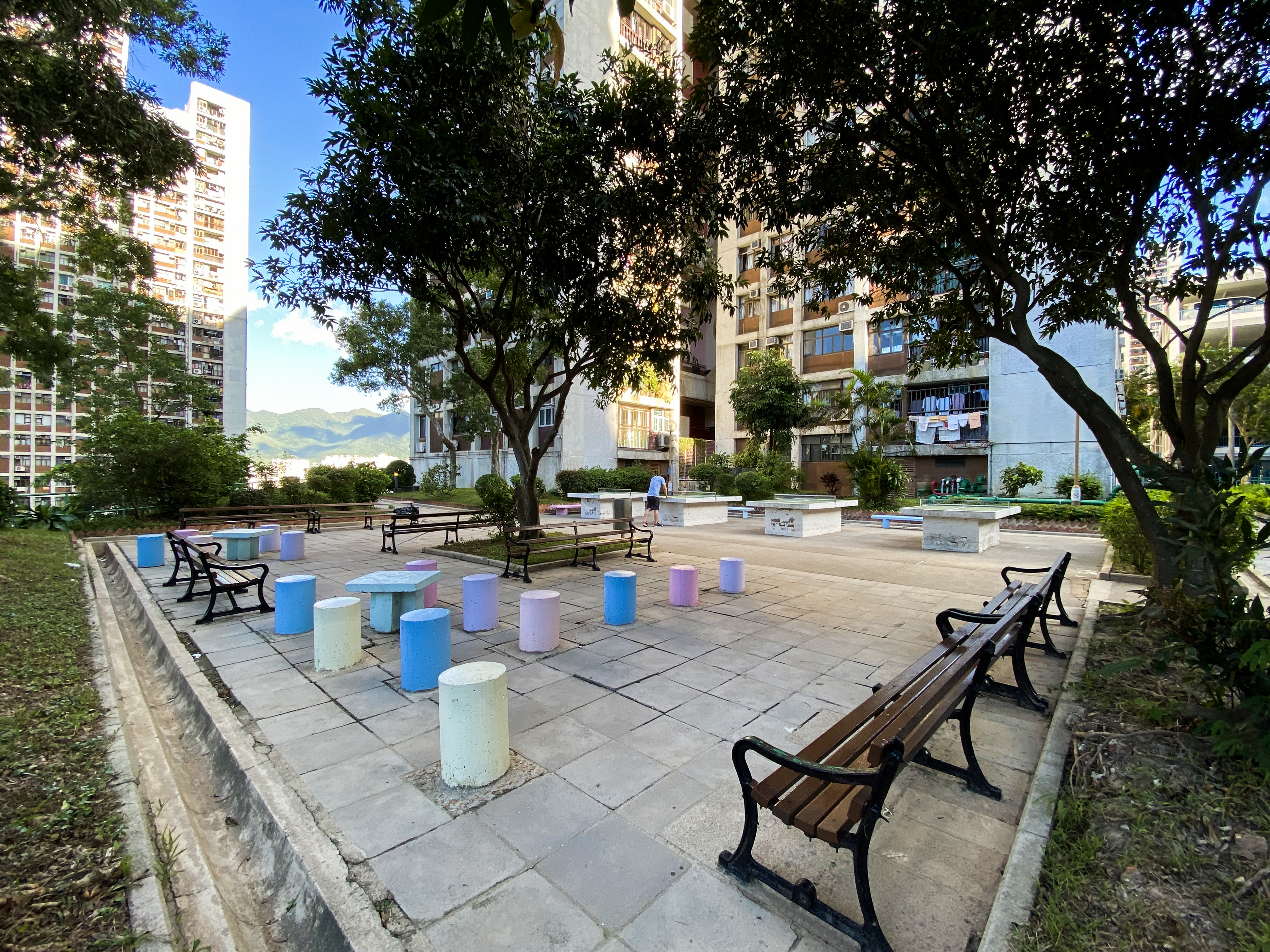 Sui Wo Court Phase 2 Table Tennis and rest area